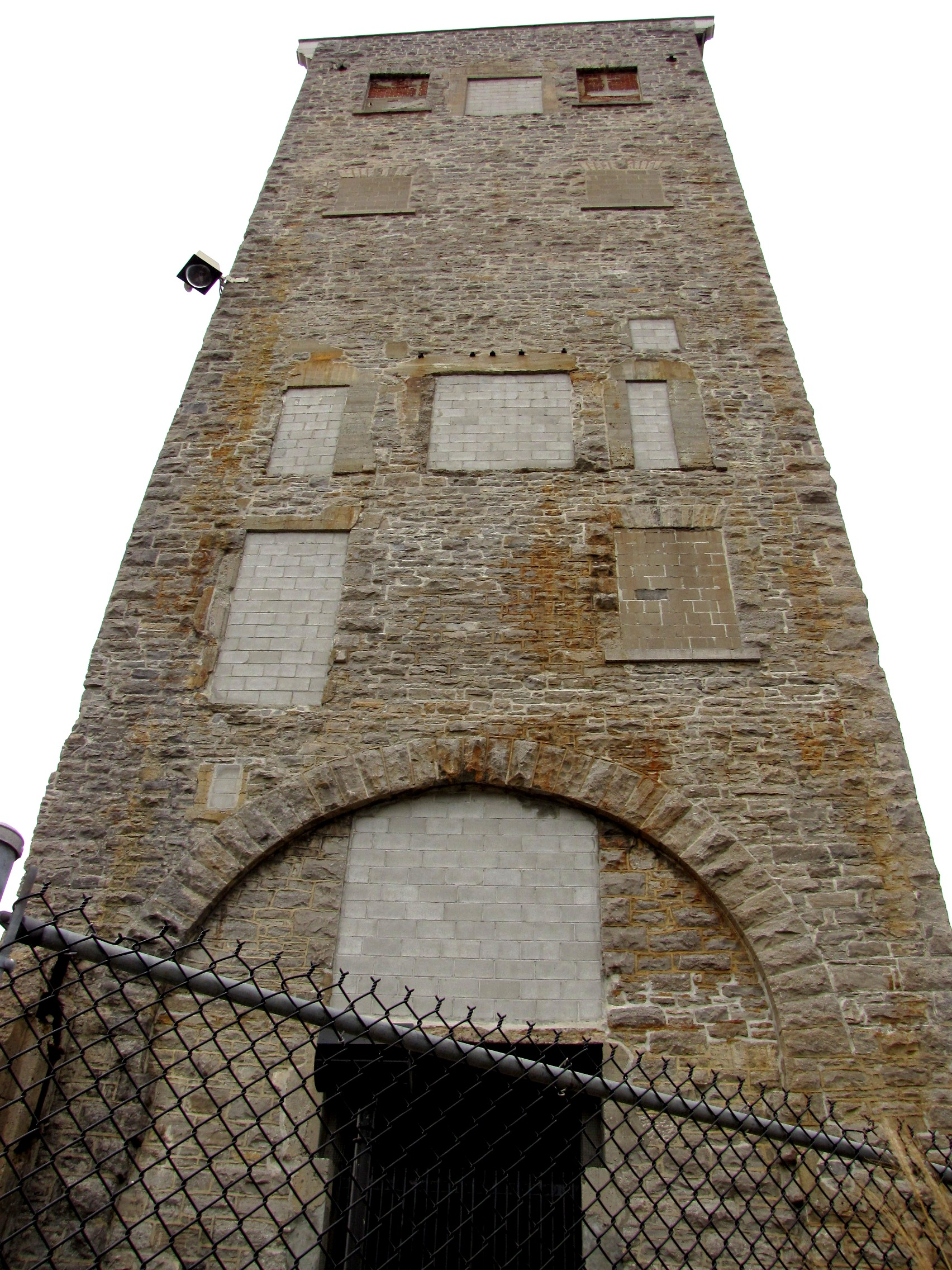 Old E.B.Eddy digestion tower, sulphate paper mill located in the Hull area of Gatineau, Québec.